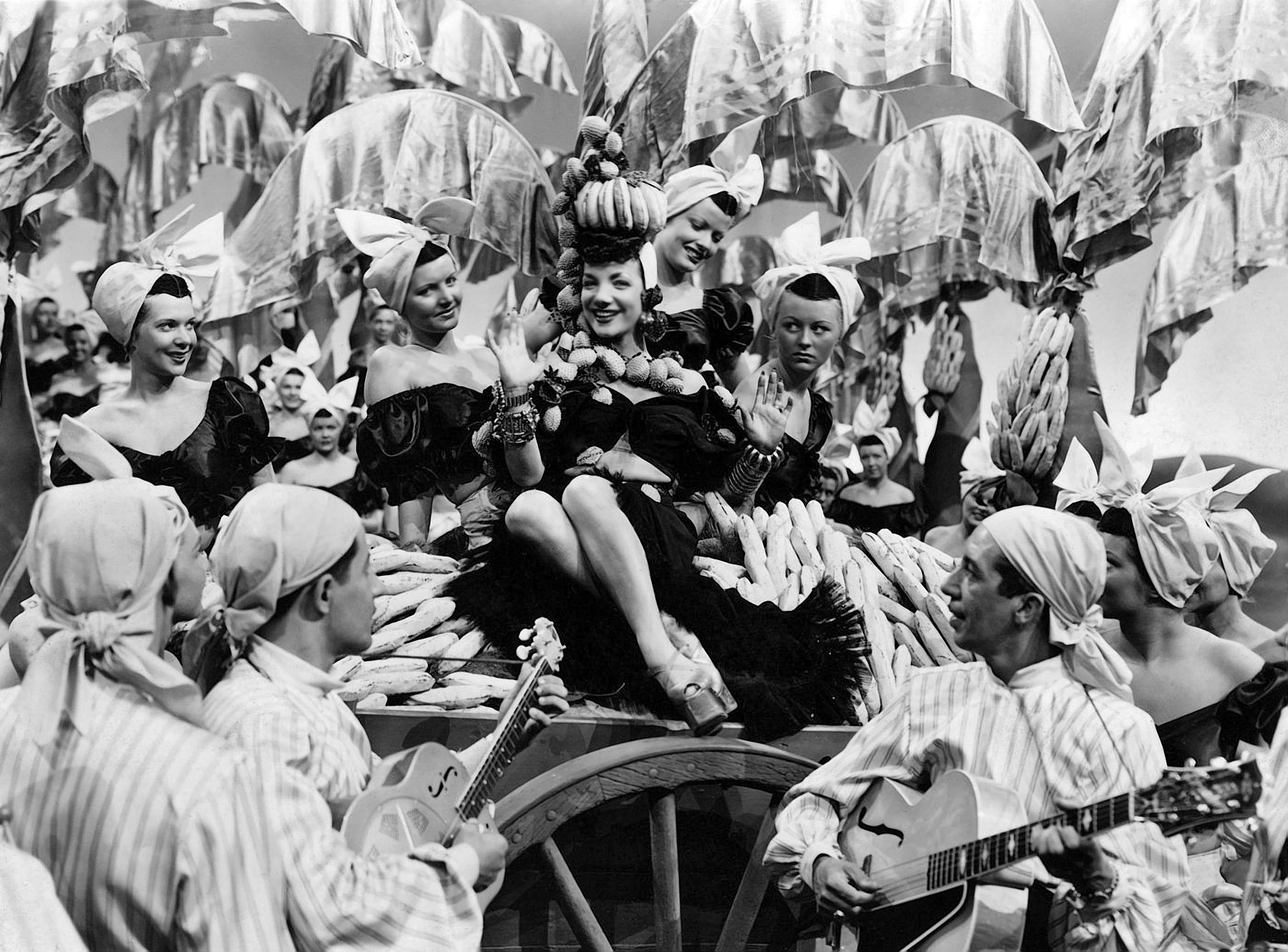 Carmen Miranda in the movie scene The Gang's All Here.